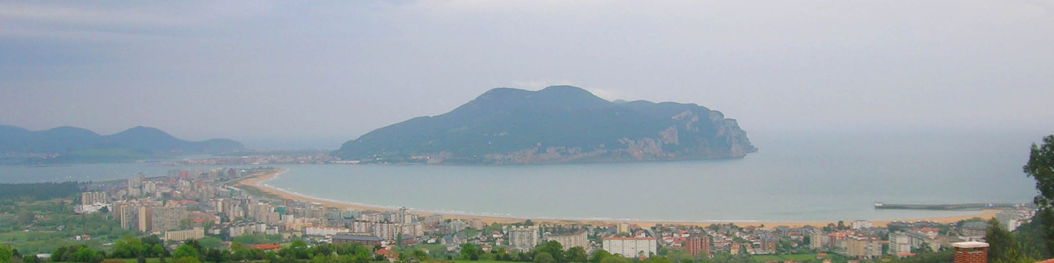 View of Laredo and Santoña bay from San Miguel de Seña, Limpias.